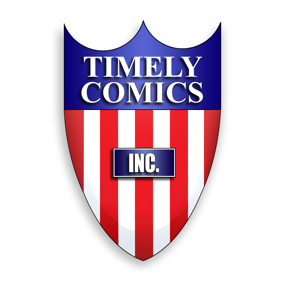 Photoshop illustration representing a variant of the Timely Comics logo used throughout the 40s by the Goodman Group/Marvel Comics. No copyright was violated in the production of this image. Stripes, colors, geometric shapes and individual words are not subject to individual copyright. Educational purpose: to illustrate articles relating to Marvel Comics. Based on this file, modified by Simon J. Kirby. Present version released under CC-zero. The author agrees that Commons is not censored and that international wikimedia projects have the right to reuse this image.